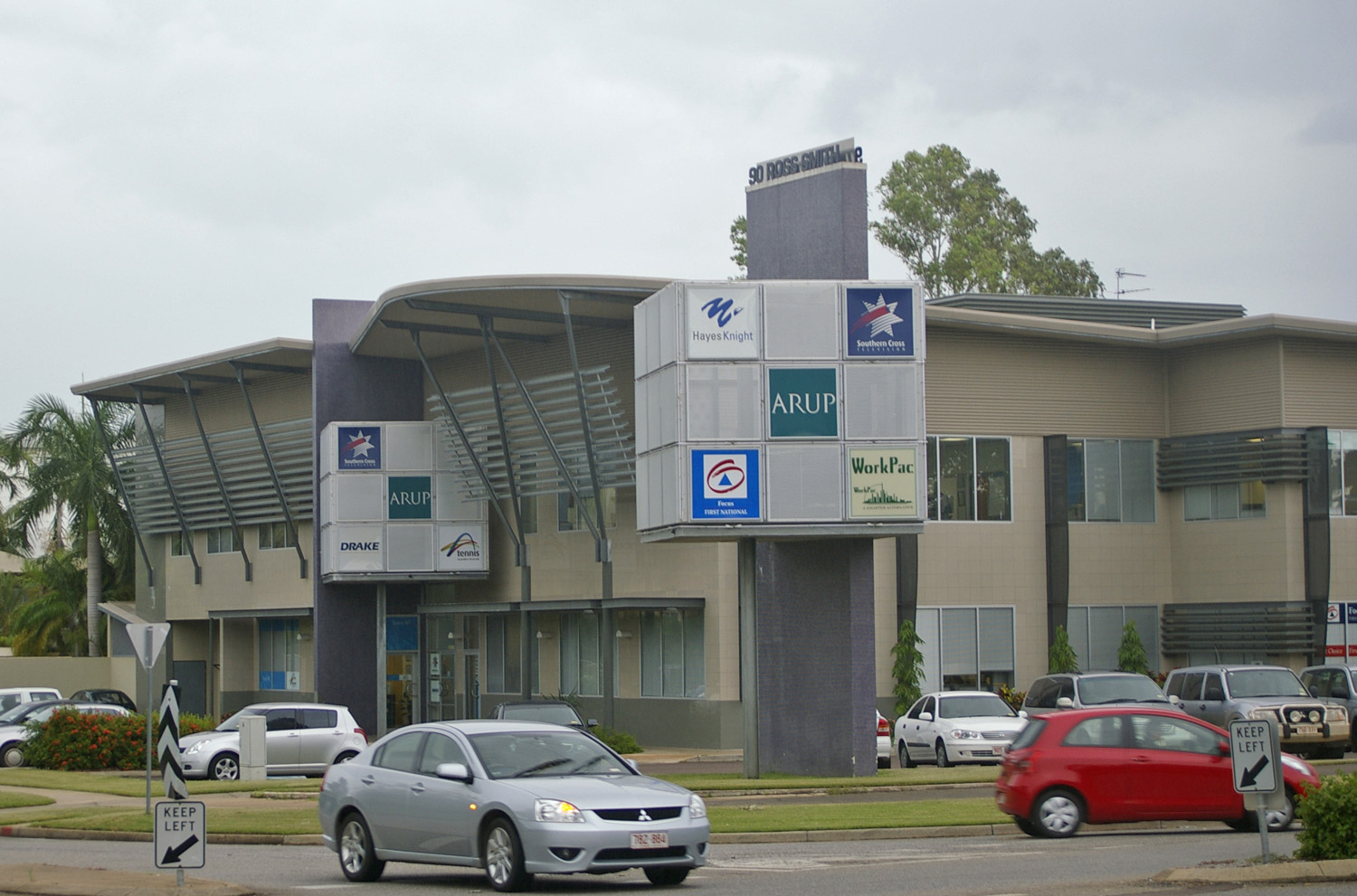 Southern Cross Darwin's sales office. Darwin, Northern Territory